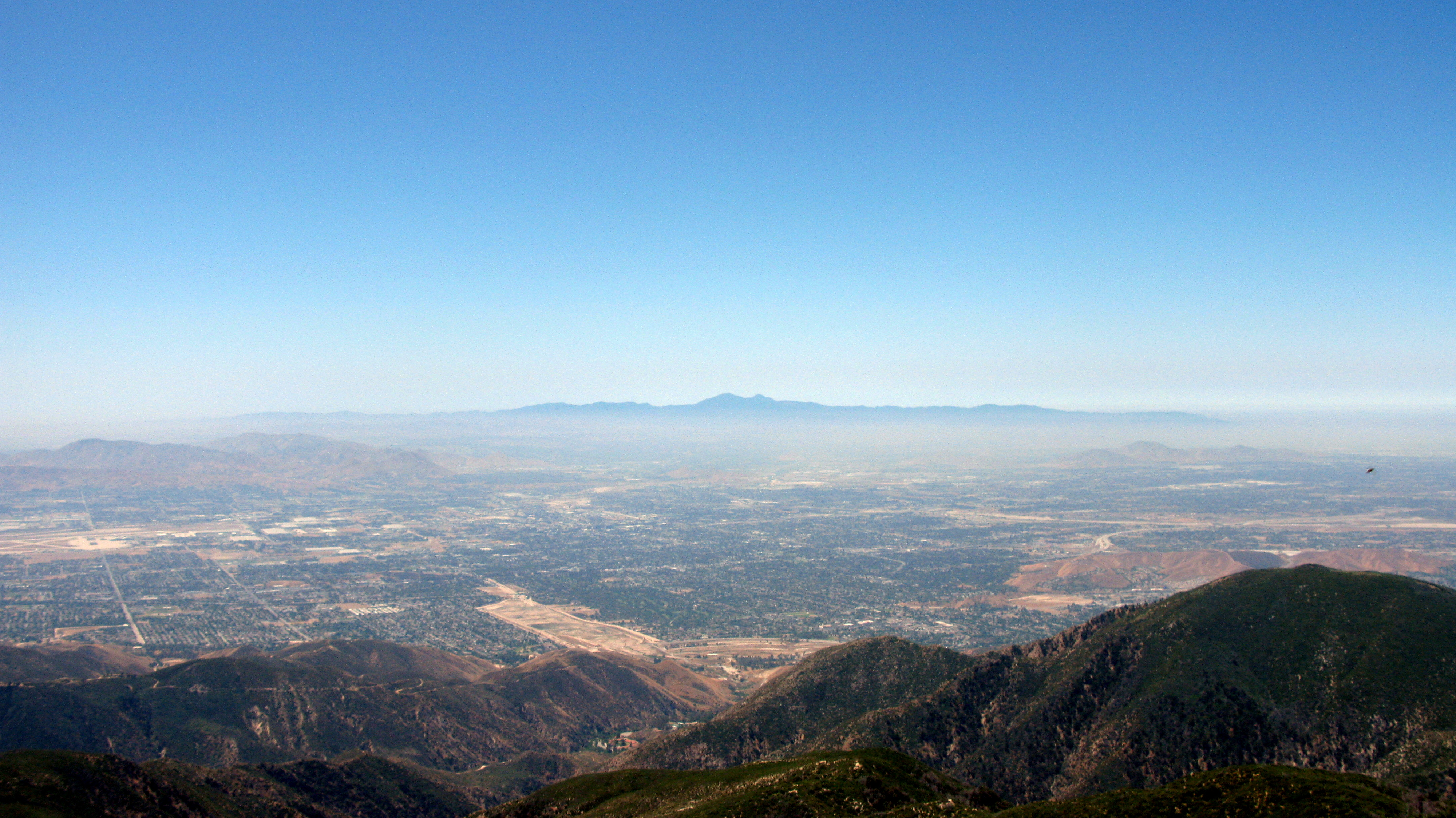 If the car altimeter is correct I am at 5883, and climbing. On the way to Lake Arrowhead. Looking southwest. 50 miles from home.